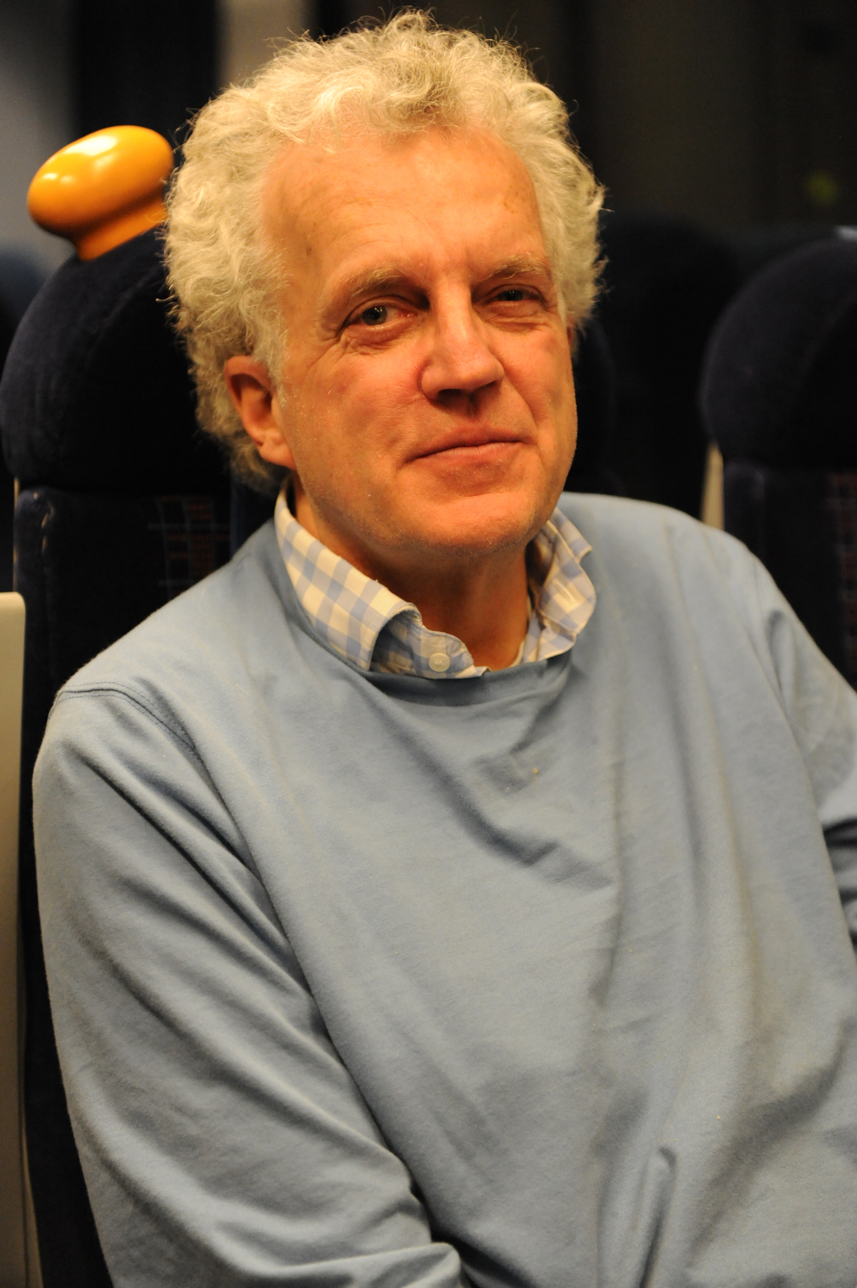 A portrait of the writer/journalist/historian Christian Wolmar